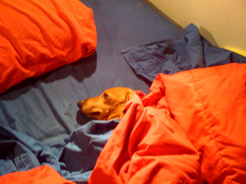 Mini Dachshund (Toby Einstein) burrowing himself under the blankets!